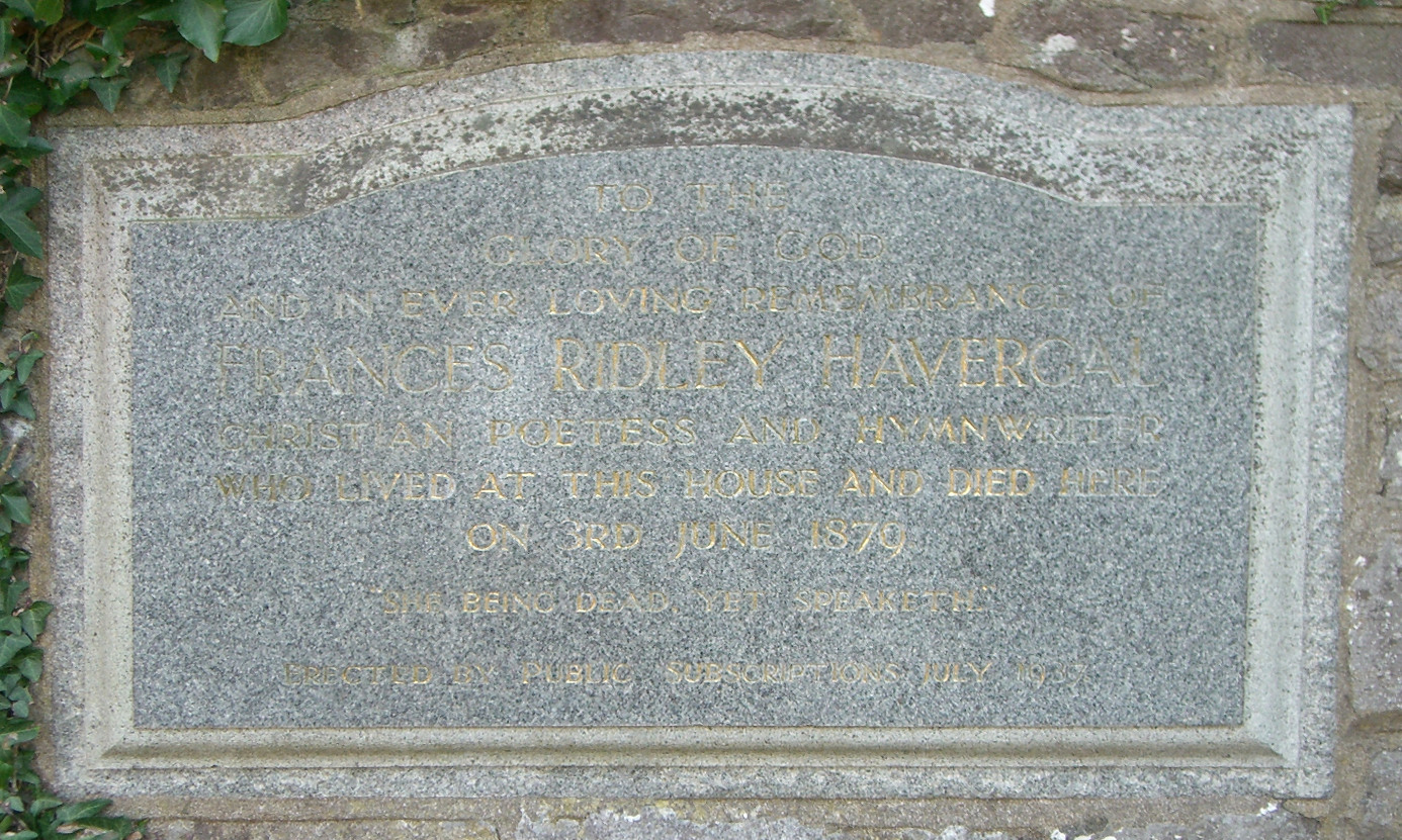 Memorial plaque to Frances Ridley Havergal, situated at junction of Caswell Road and Caswell Avenue.